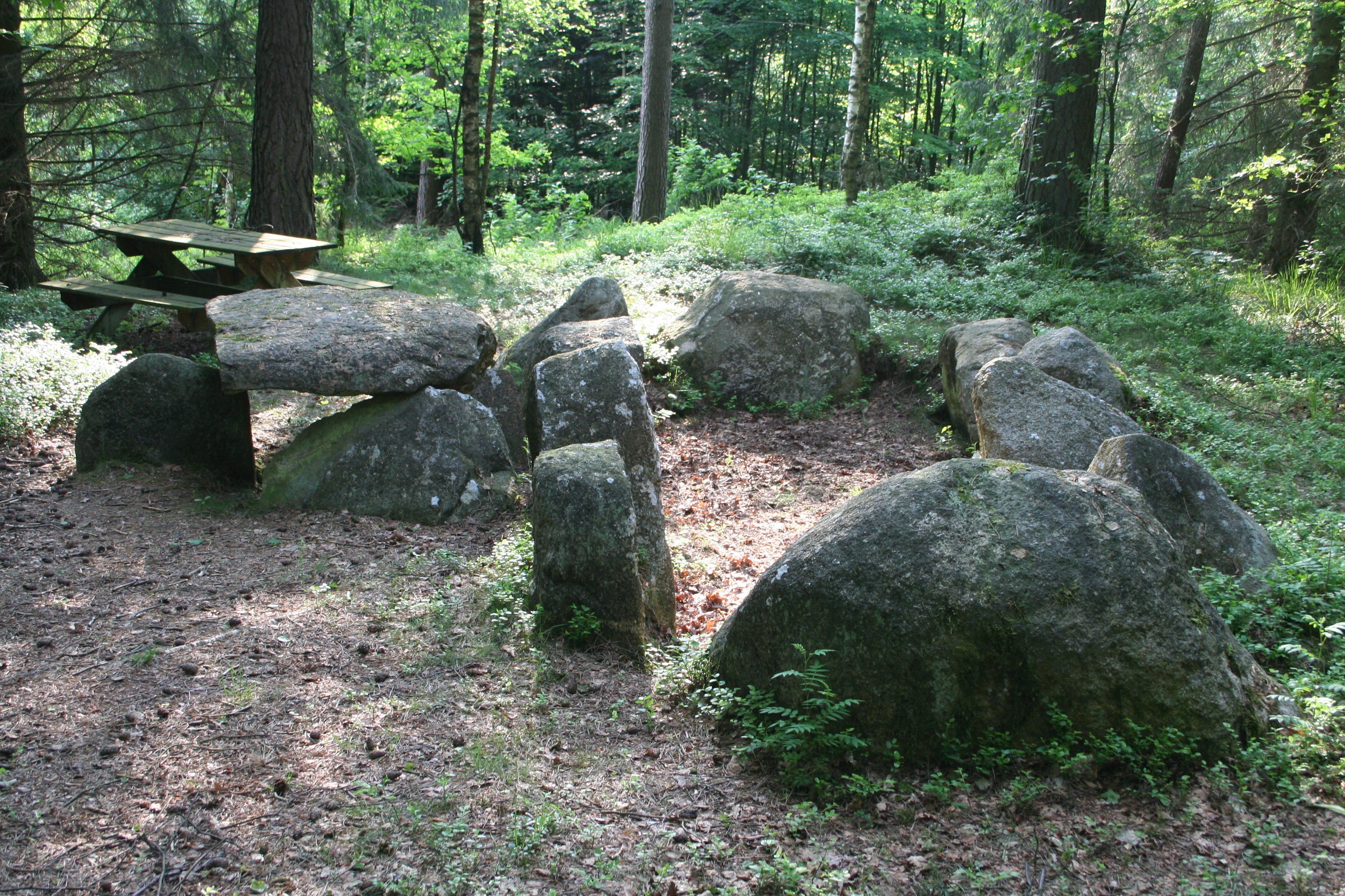 Megalithic tomb Steden 2